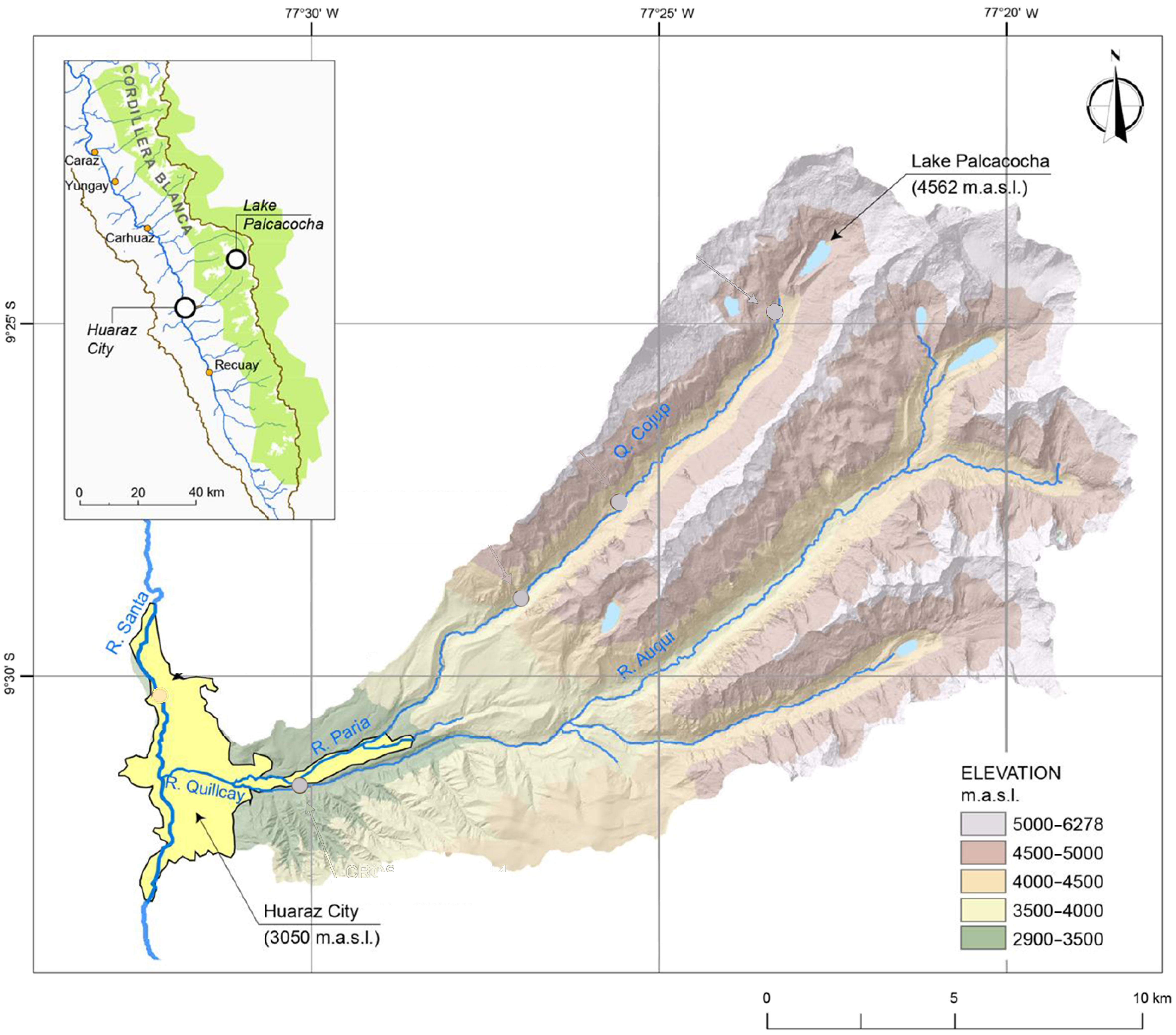 Map of the Quillcay watershed, including the city of Huaraz and Lake Palcacocha. Based on a digital elevation model.